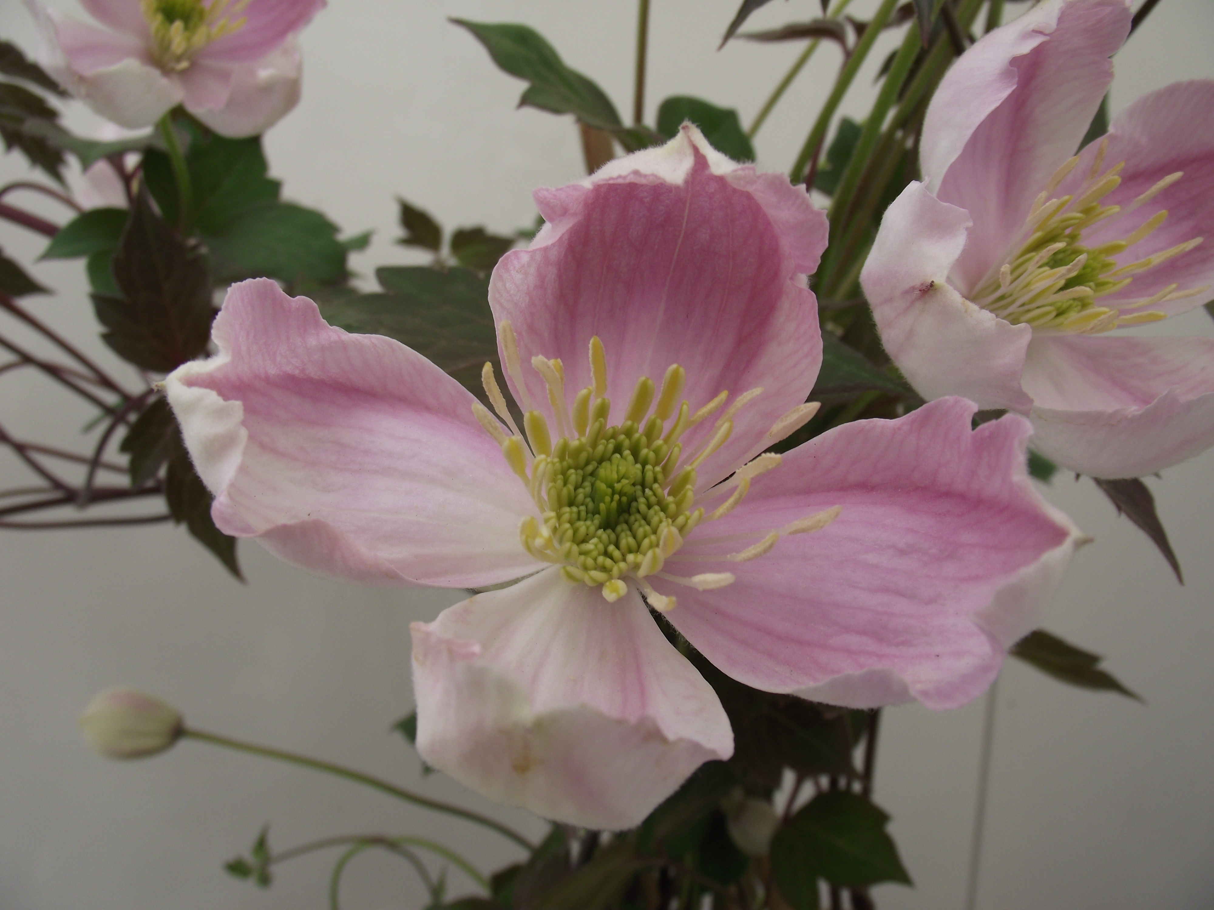 Clématite montana giant star 'Gistar'